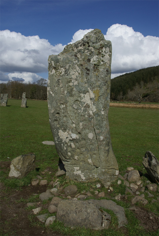 Nether Largie Standing Stones, Kilmartin Glen, Scotland - biggest stone with cup (and ring) marks